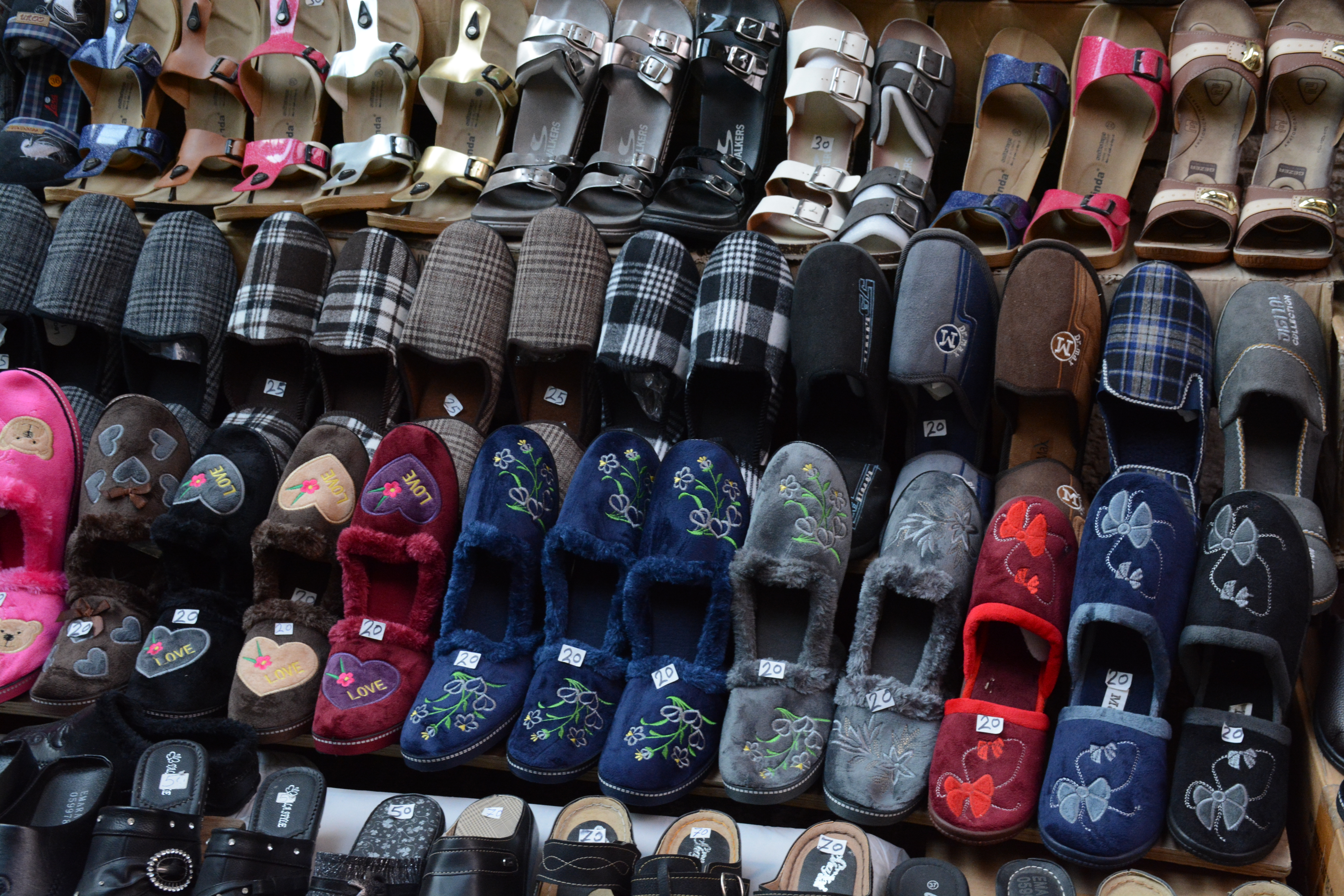 slippers for sale in the market